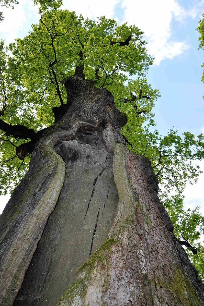 Winner 2017 ¨Josef Oak¨, Poland